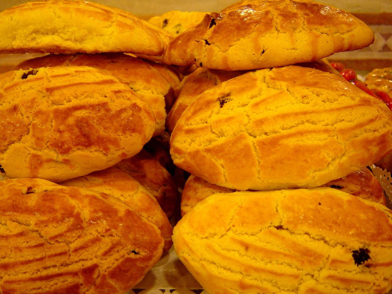 Pogača (or Poğaça), a type of bread eaten in Bosnia, Bulgaria, Croatia, Macedonia, Serbia and Turkey.